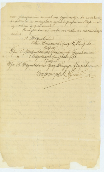 Document by Boris Mokrev 18 December 1906